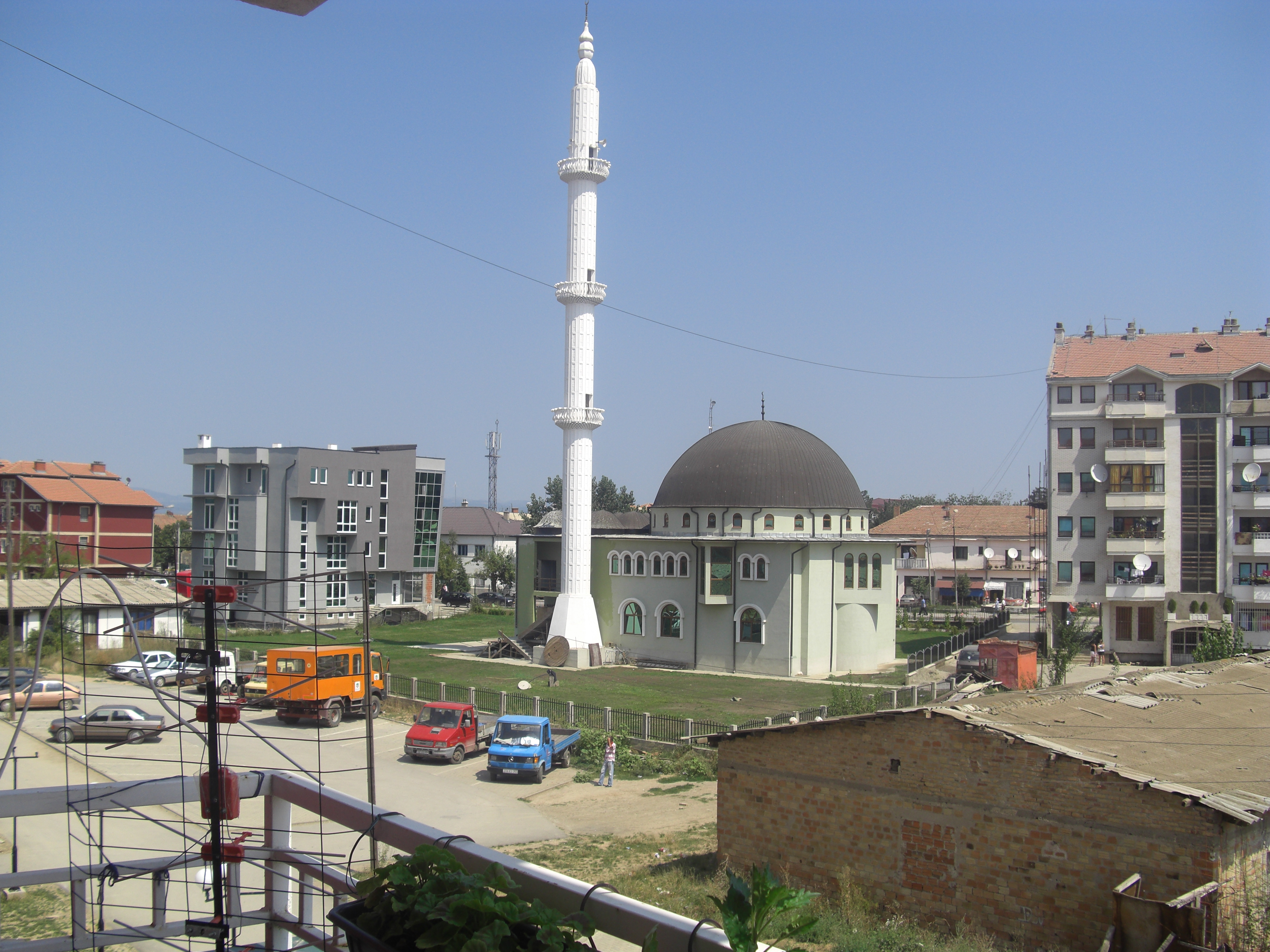 New Mosque in Obilic Kastriot by the main street.